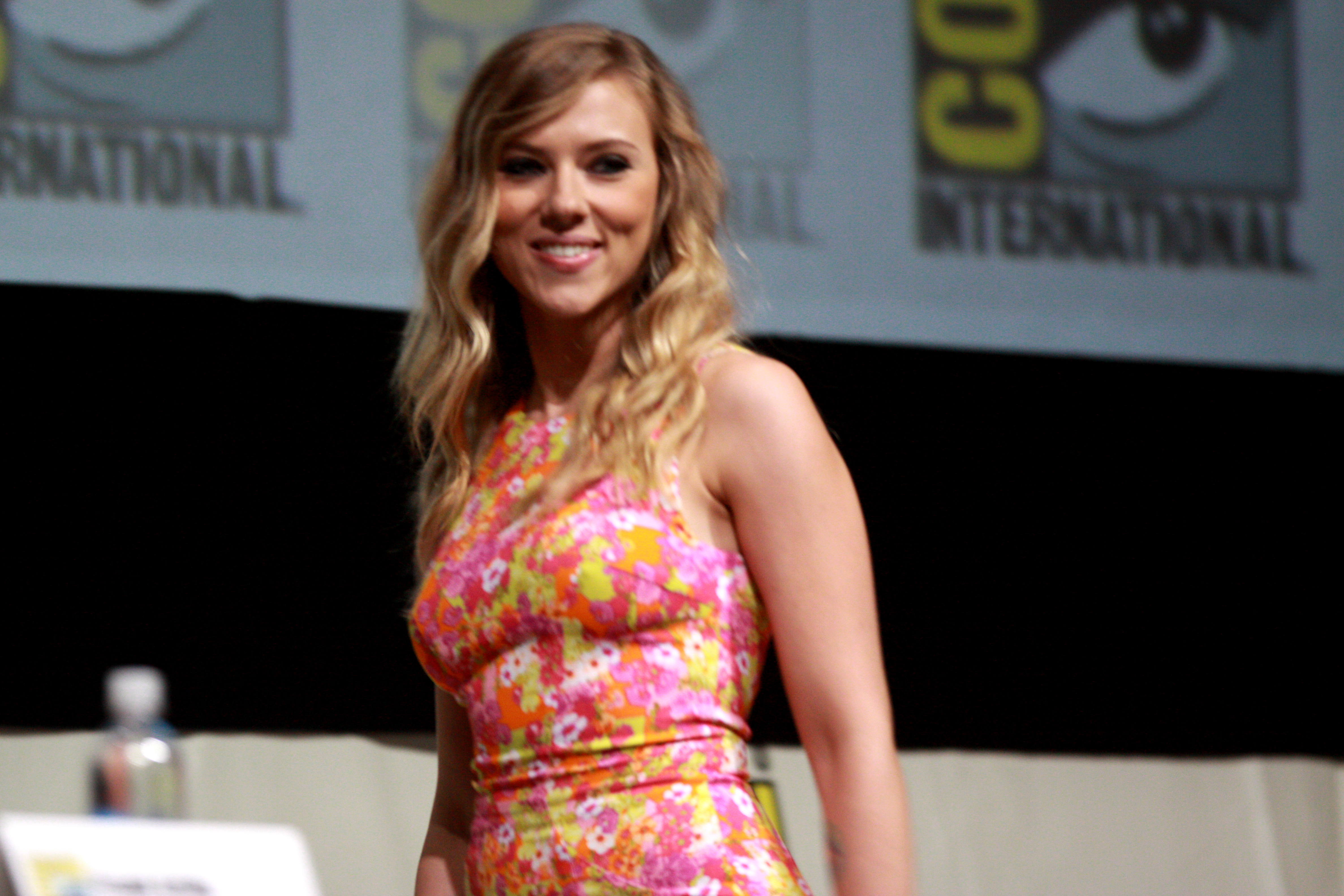 Scarlett Johansson speaking at the 2013 San Diego Comic Con International, for "Captain America: The Winter Soldier", at the San Diego Convention Center in San Diego, California.